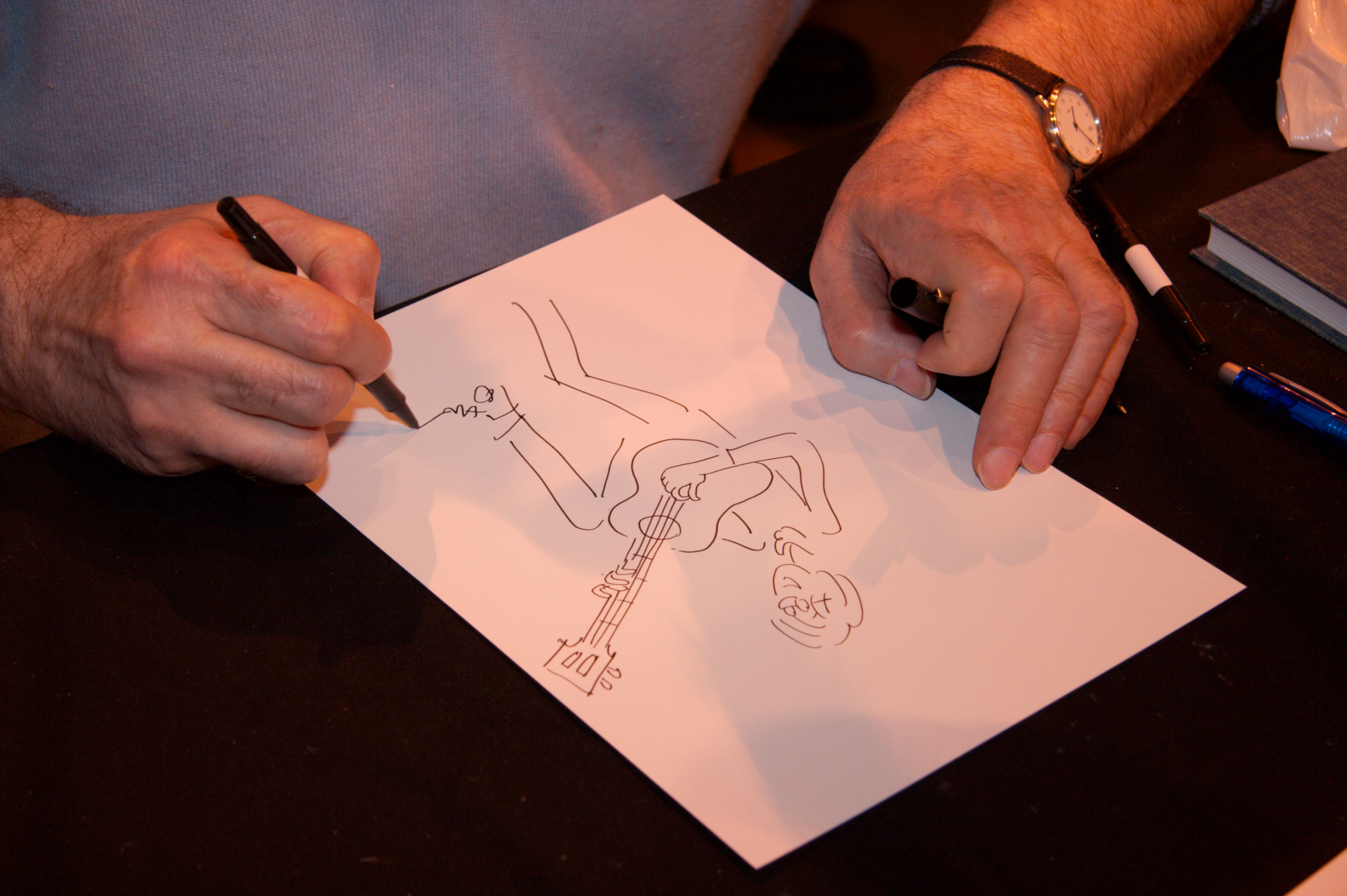 Autograph session with Cabu at Salon du livre 2008 (Paris, France)